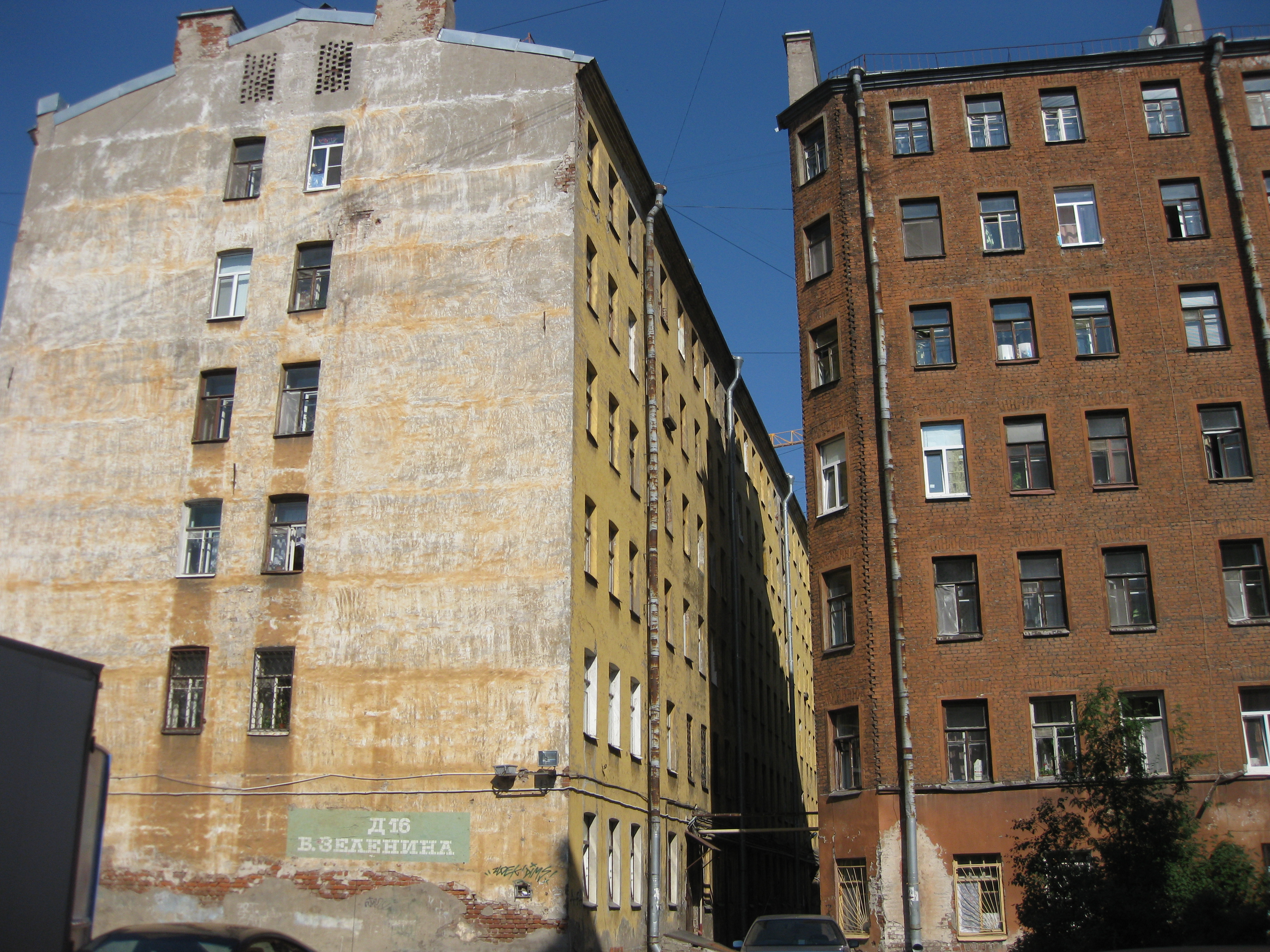 Old tenement buildings on Petrogradskaya Storona island, St Petersburg, Russia. Probably built around the turn of the century 1900.